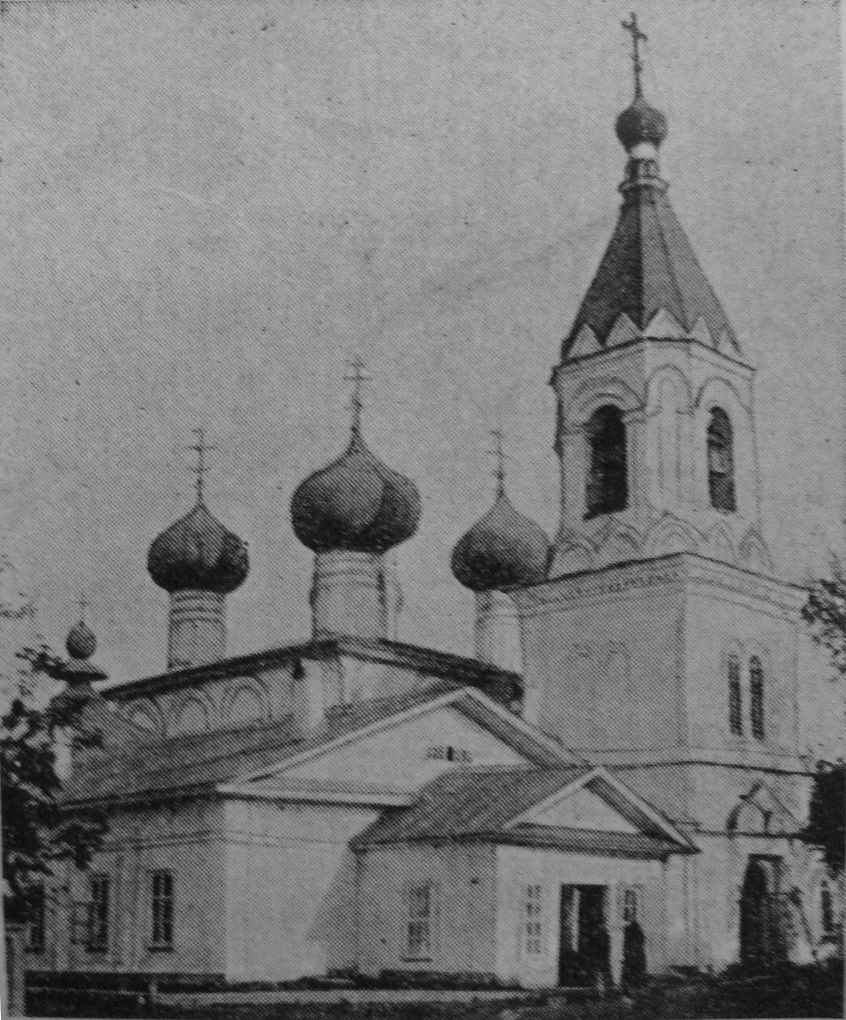 Dorminion church in Gorny Monastery in Vologda